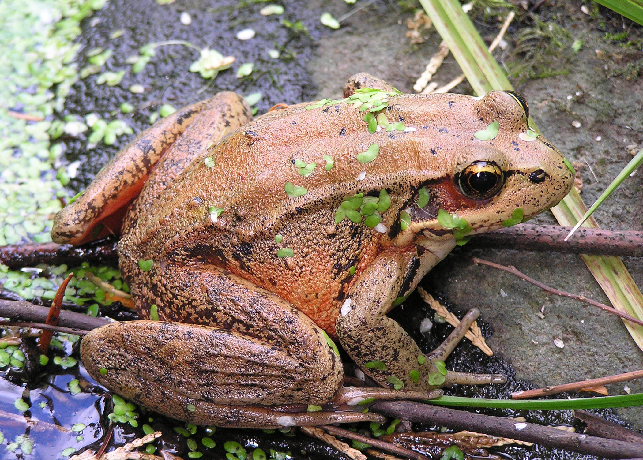 A Northern red-legged frog, one of Oregon's native species.